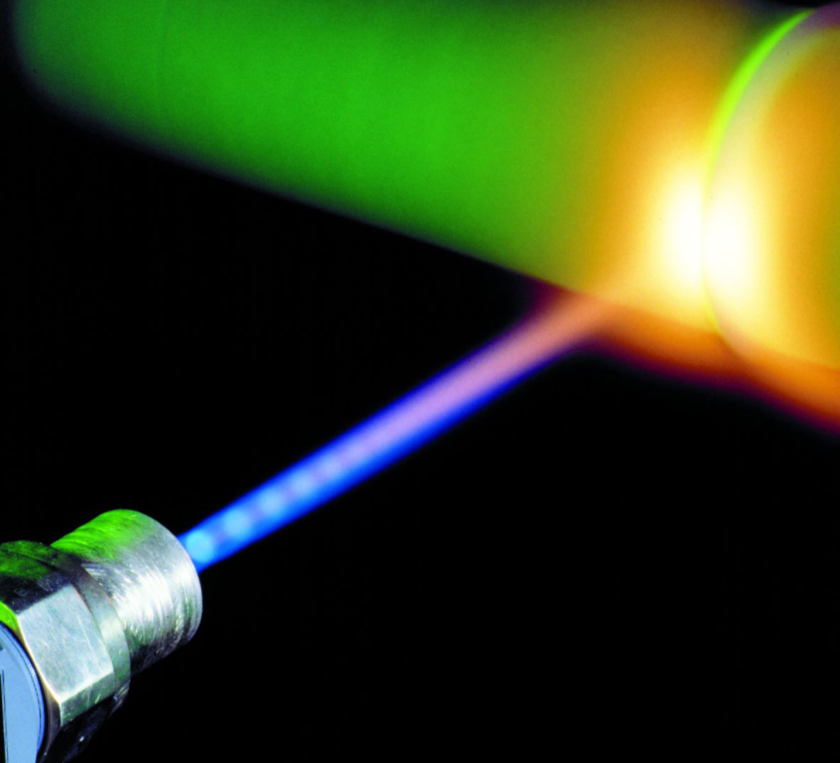 Laseret